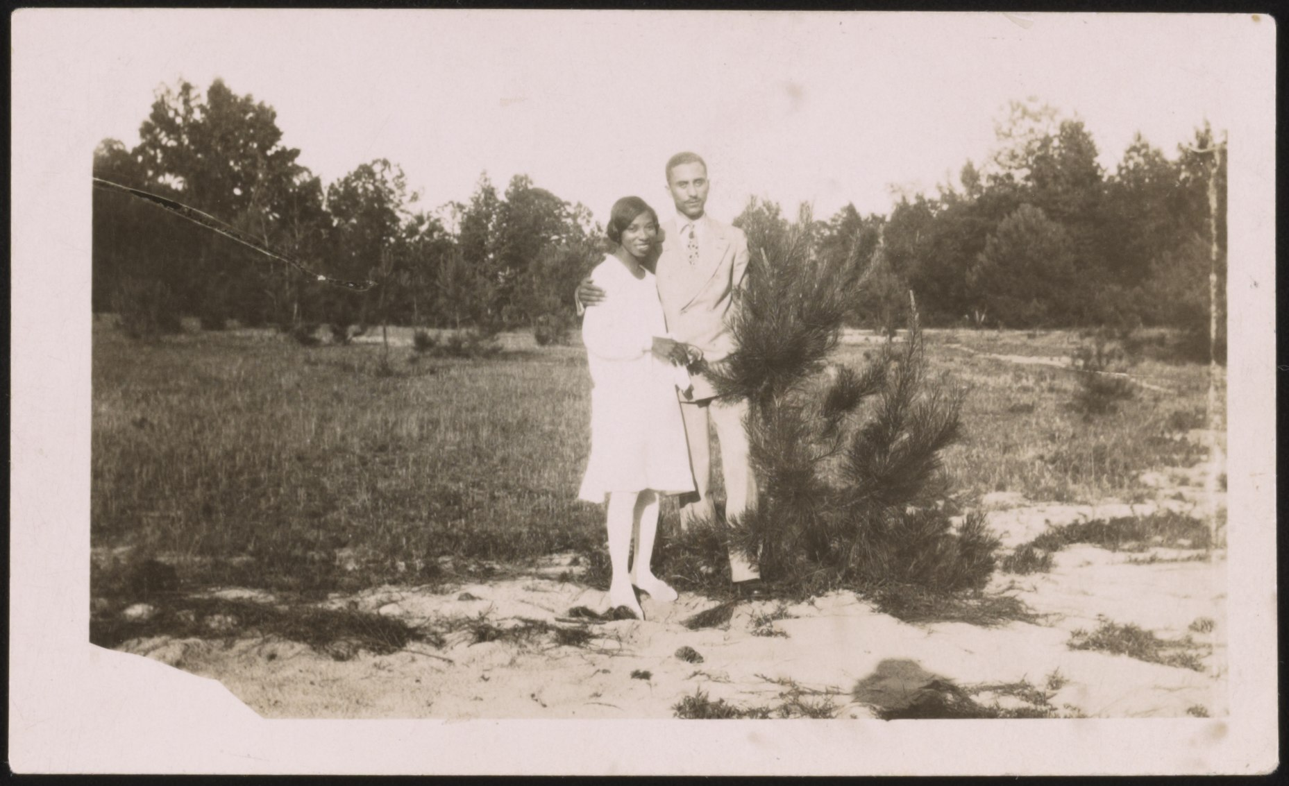 Title: Young couple standing in a field, the man with right arm around the woman's shoulder Abstract/medium: 1 photograph : b&w print ; sheet 7 x 11 cm.